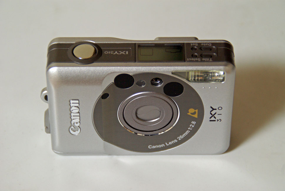 Canon IXY 310